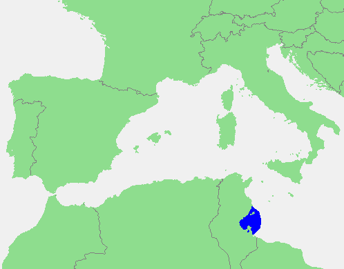 In dutch: Locatie Golf van Gabes.PNG